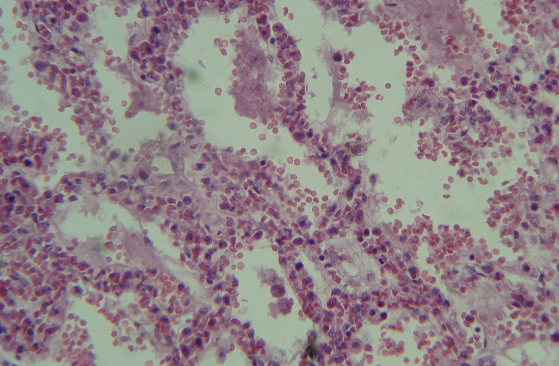 Micrograph of diffuse alveolar damage, the histologic finding of acute respiratory distress syndrome (ARDS). Original magnification 400x.